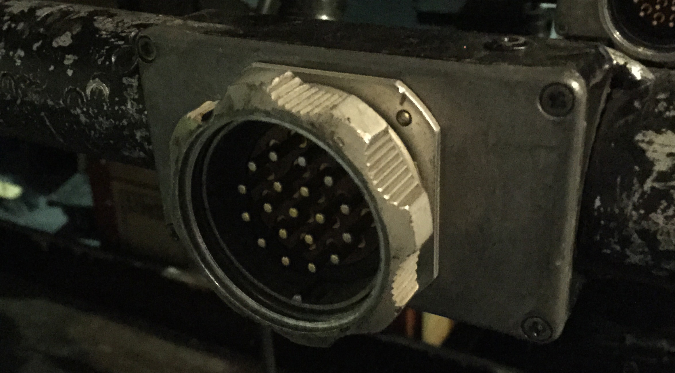 Socapex 19-pin connector - male panelmount